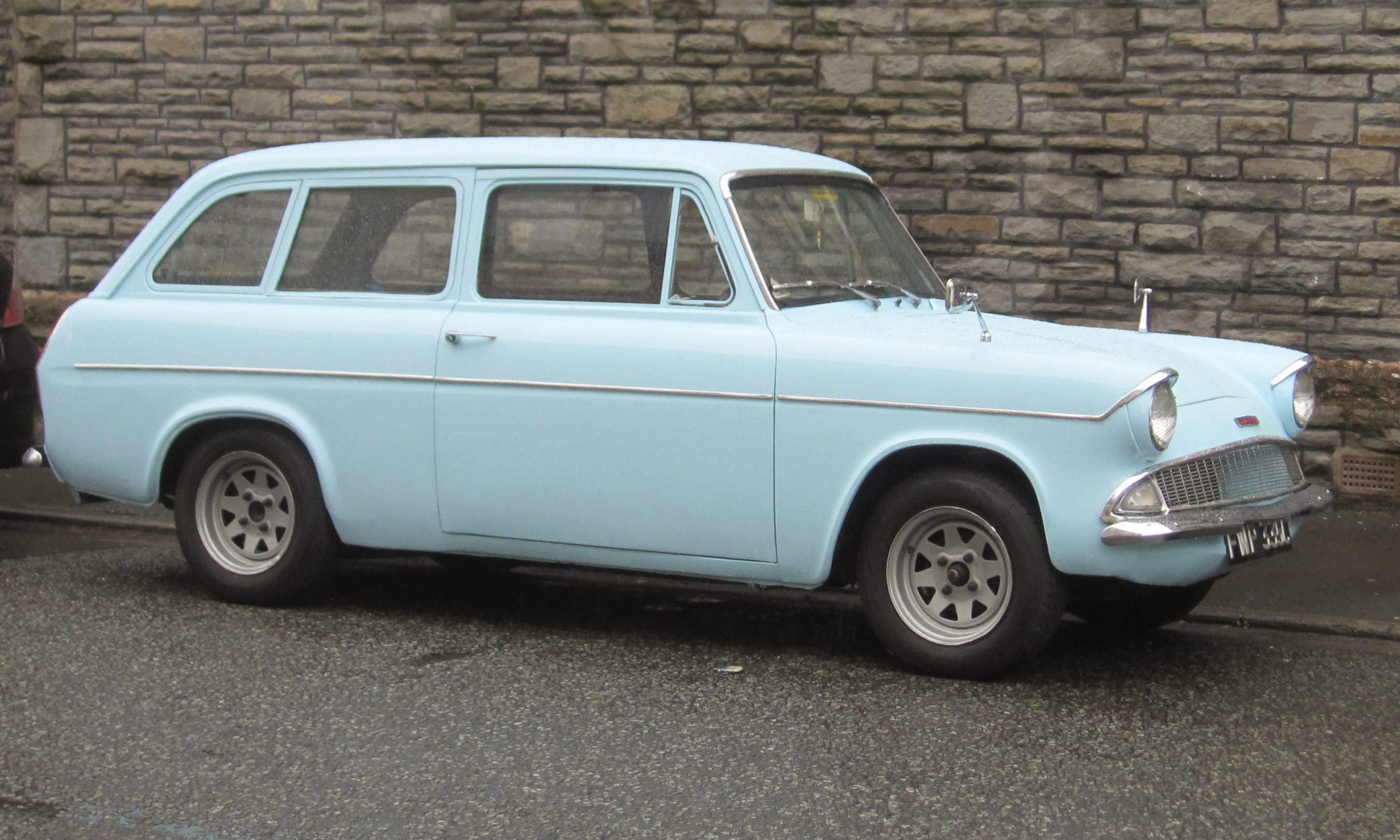 Ford Anglia 105E estate (Cathays)